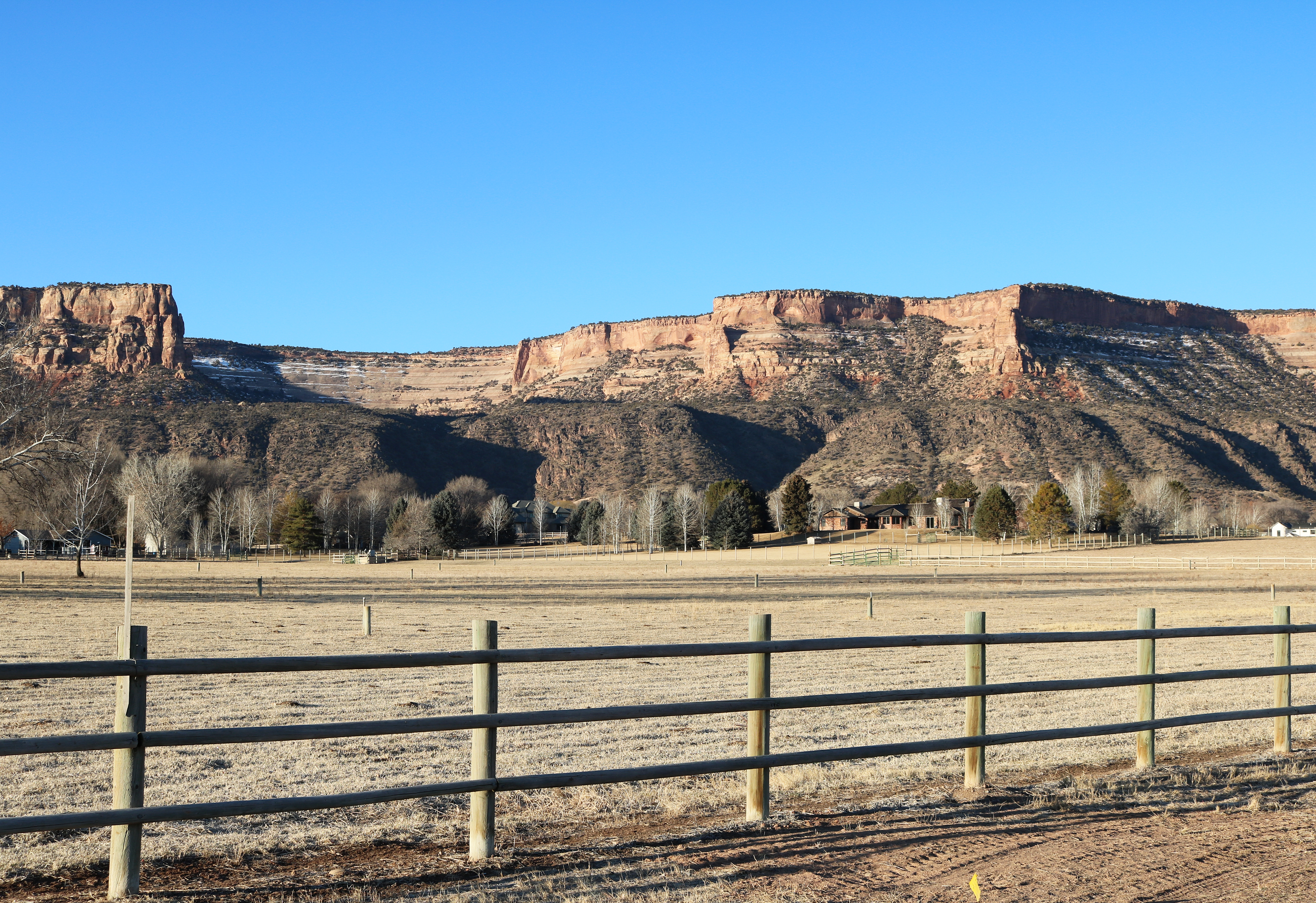 A view of part of Redlands, Colorado, a census-designated place in Mesa County. The view is from the intersection of Broadway and Canyon Creek Drive.